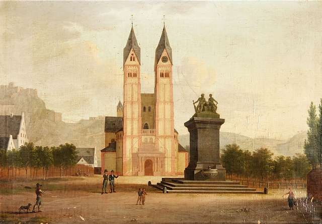 Die Basilika St. Castor in Koblenz, oil on canvas laid on canvas, 30 x 52 cm